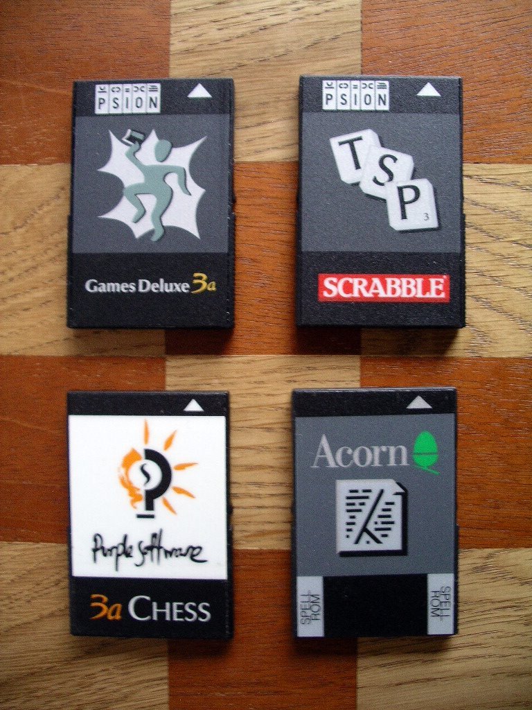 Photo of software on memory units available for Psion Series 3's. Photo on backbround of 5cm squares. Low resolution picture for illustration only; fair use of images.